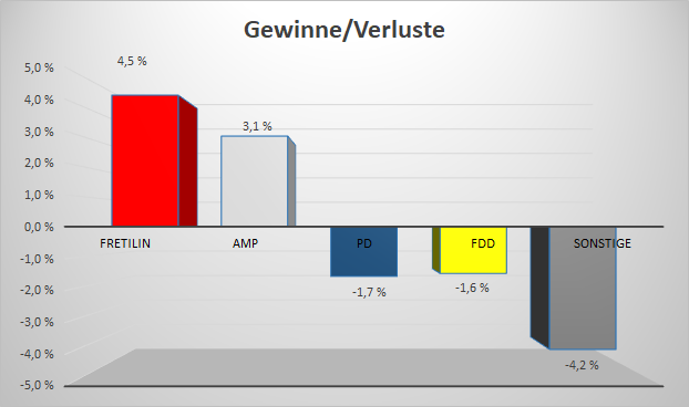 Win and lost of parties in parliament election 12 May 2018 in East Timor